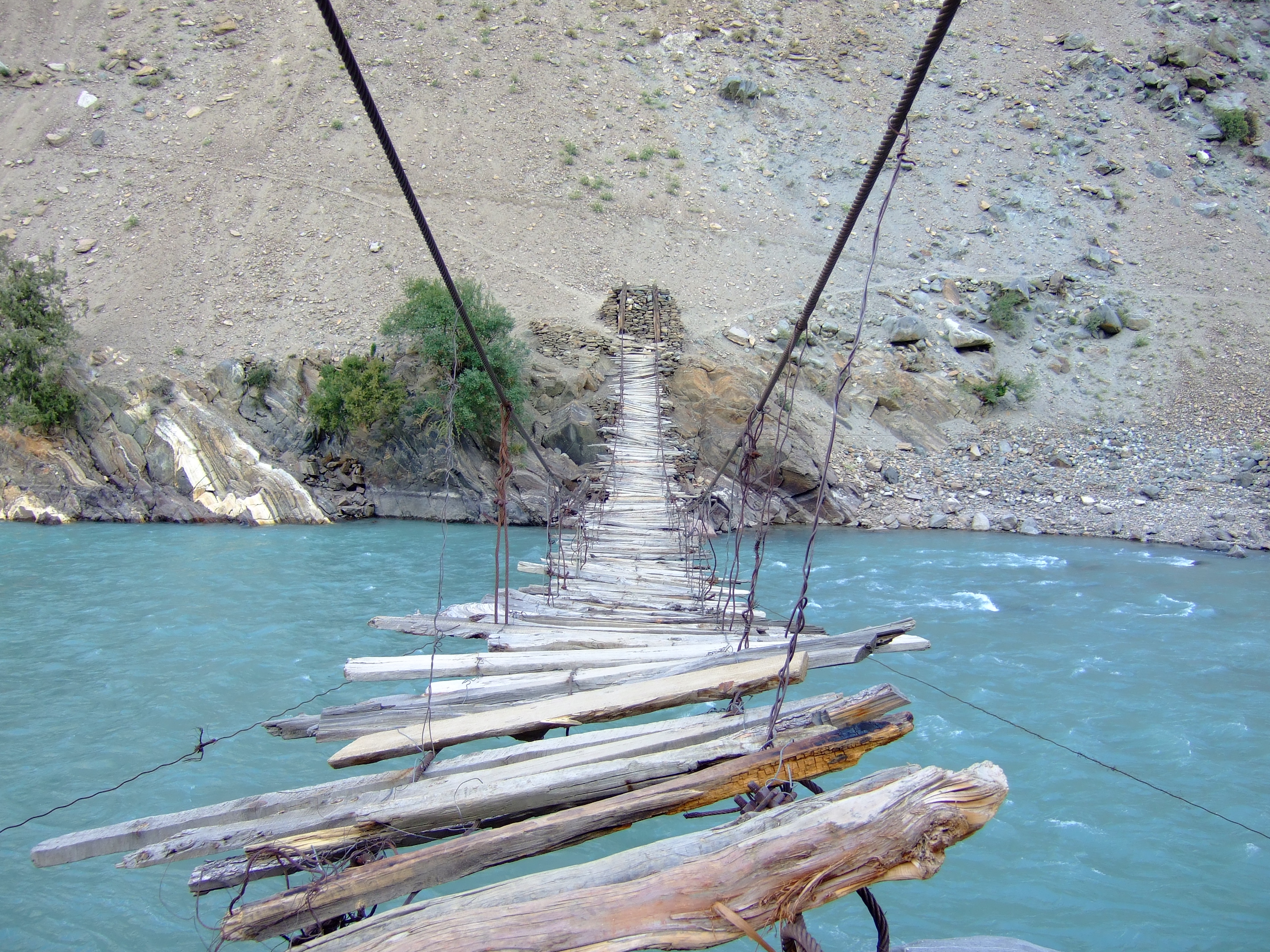 Suspension bridges are suspended from cables. The earliest suspension bridges were made of ropes or vines covered with pieces of bamboo. In this picture the suspension bridge, which is now only for human use, is in Astore Valley. This type of bridge is found in the Gilgit-Baltistan area of Pakistan.